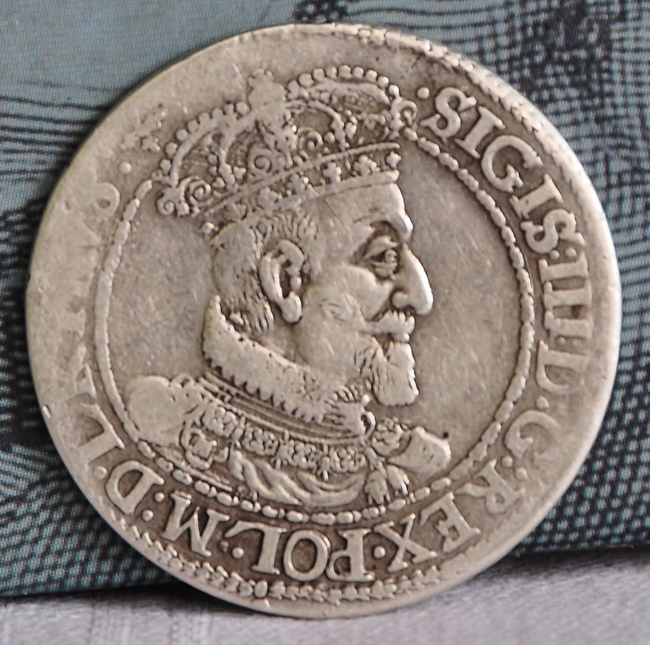 Avers of the "Ort" coin with profile of Sigismund III Vaza, Gdańsk Mint, 1618